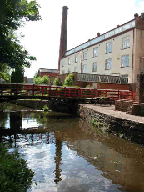 Fox Brothers, Coldharbour Mill, Uffculme. This textile mill dates back to the seventeenth century. Today it is a museum having ceased operation around 1980. In addition to an impressive array of workable machinery the mill houses a large recently restored waterwheel an original cross compound textile mill engine and several other interesting steam engines.